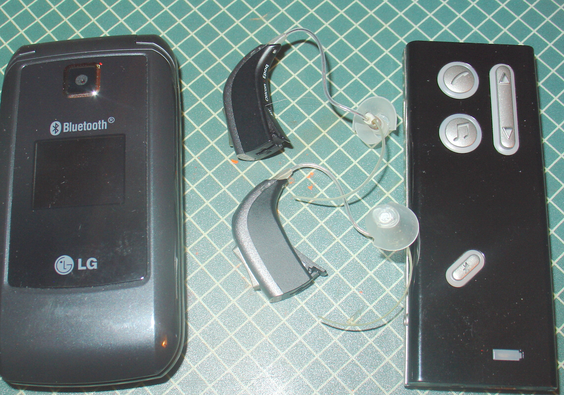 Oticon brand hearings aids for bluetooth devices, used by people with impaired hearing.